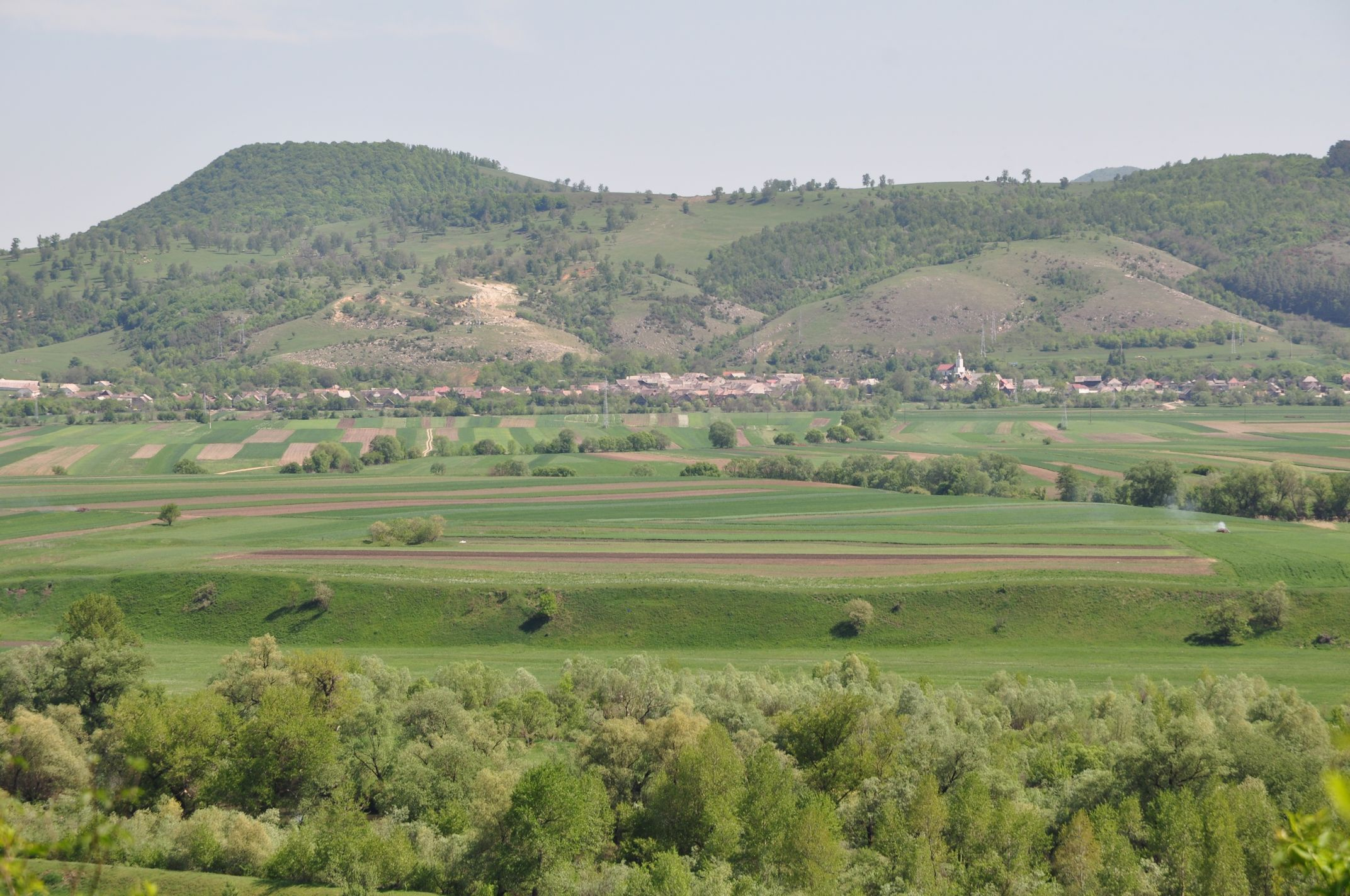 Castra of Hoghiz